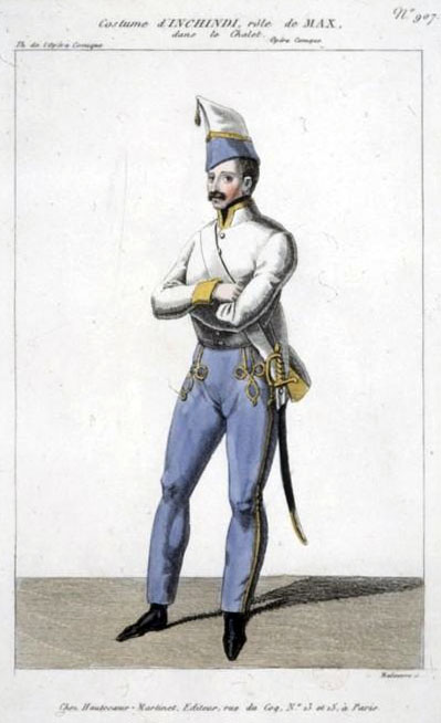 Costume of Inchindi (Jean-François Hennekindt) as Max in Adolphe Adam's 1-act opéra-comique Le chalet